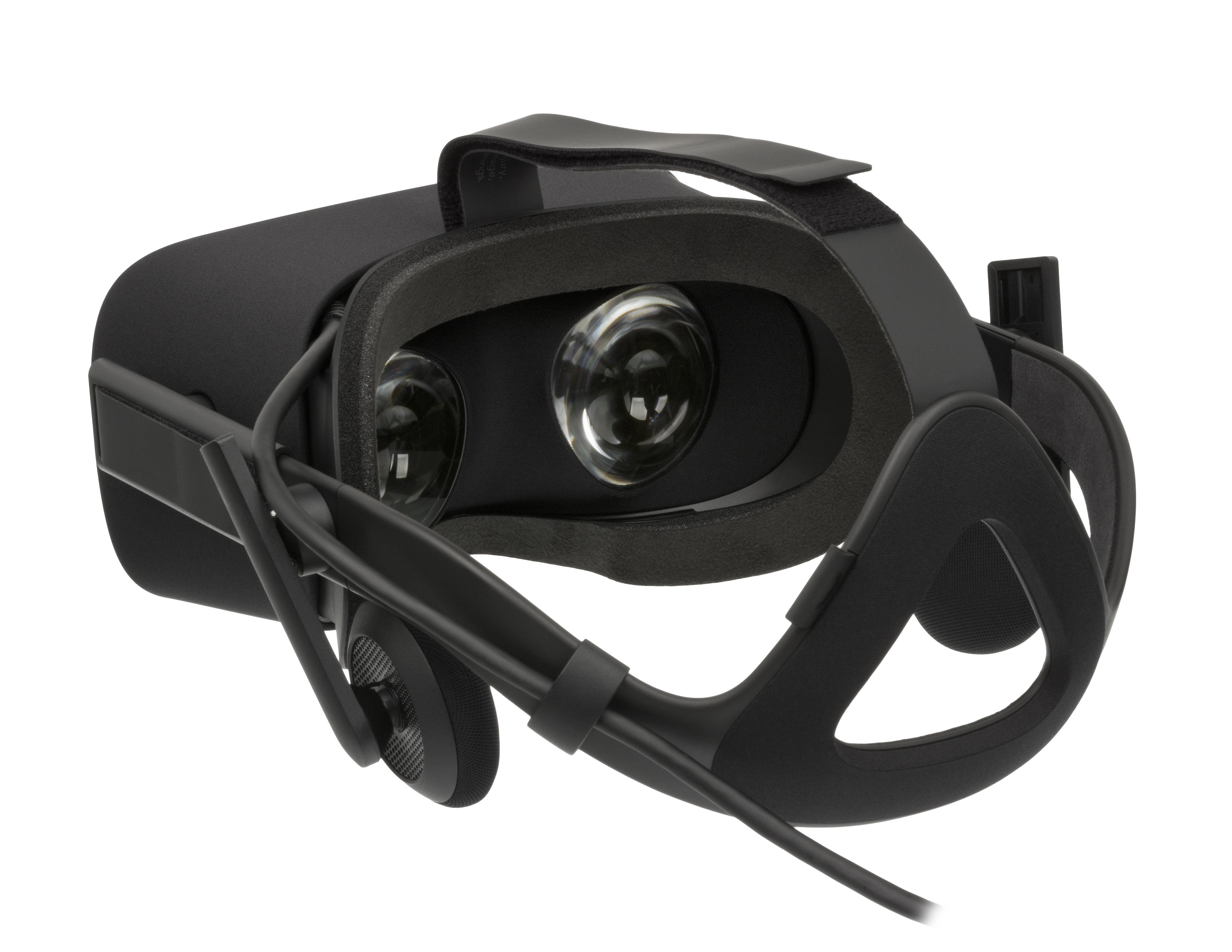 The Oculus Rift CV1 (Consumer Version 1), a virtual reality headset made by Oculus VR and released in 2016.